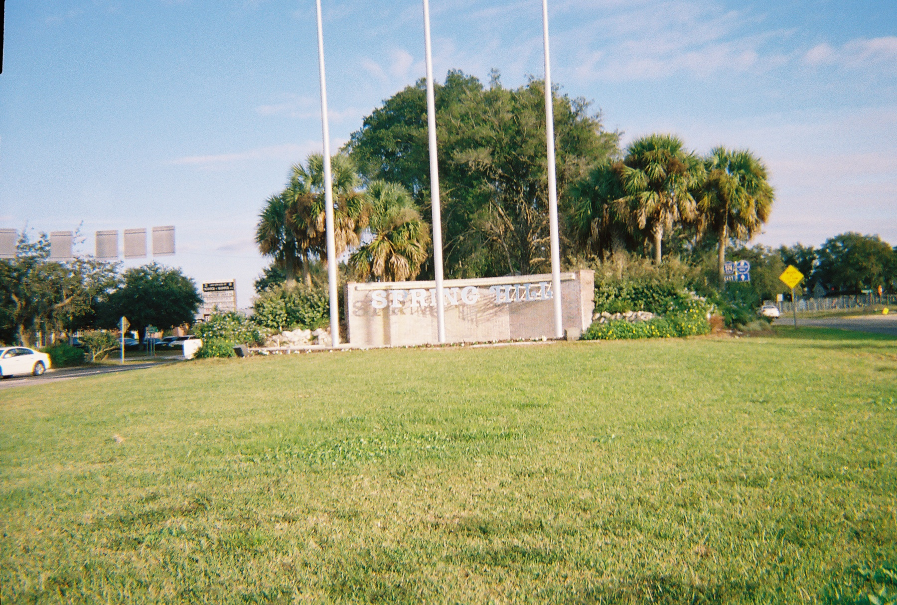 The gateway of Spring Hill, Florida on U.S. Route 19 in Florida an Hernando County Road 574, across from the intersection of US 19 and Hernando County Road 595 in Spring Hill, which has its own gateway to Hernando Beach, Florida. Taken from the gateway itself, which explains why you can't see US 19 or Hernando CR 595 from here.